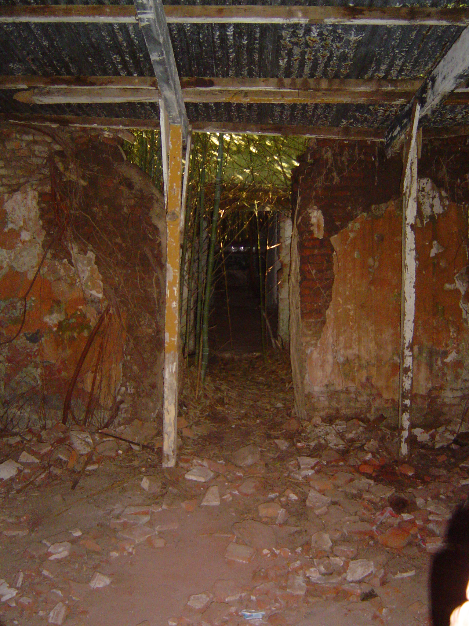 Ruins of a house in the Martín García Isle, Argentina